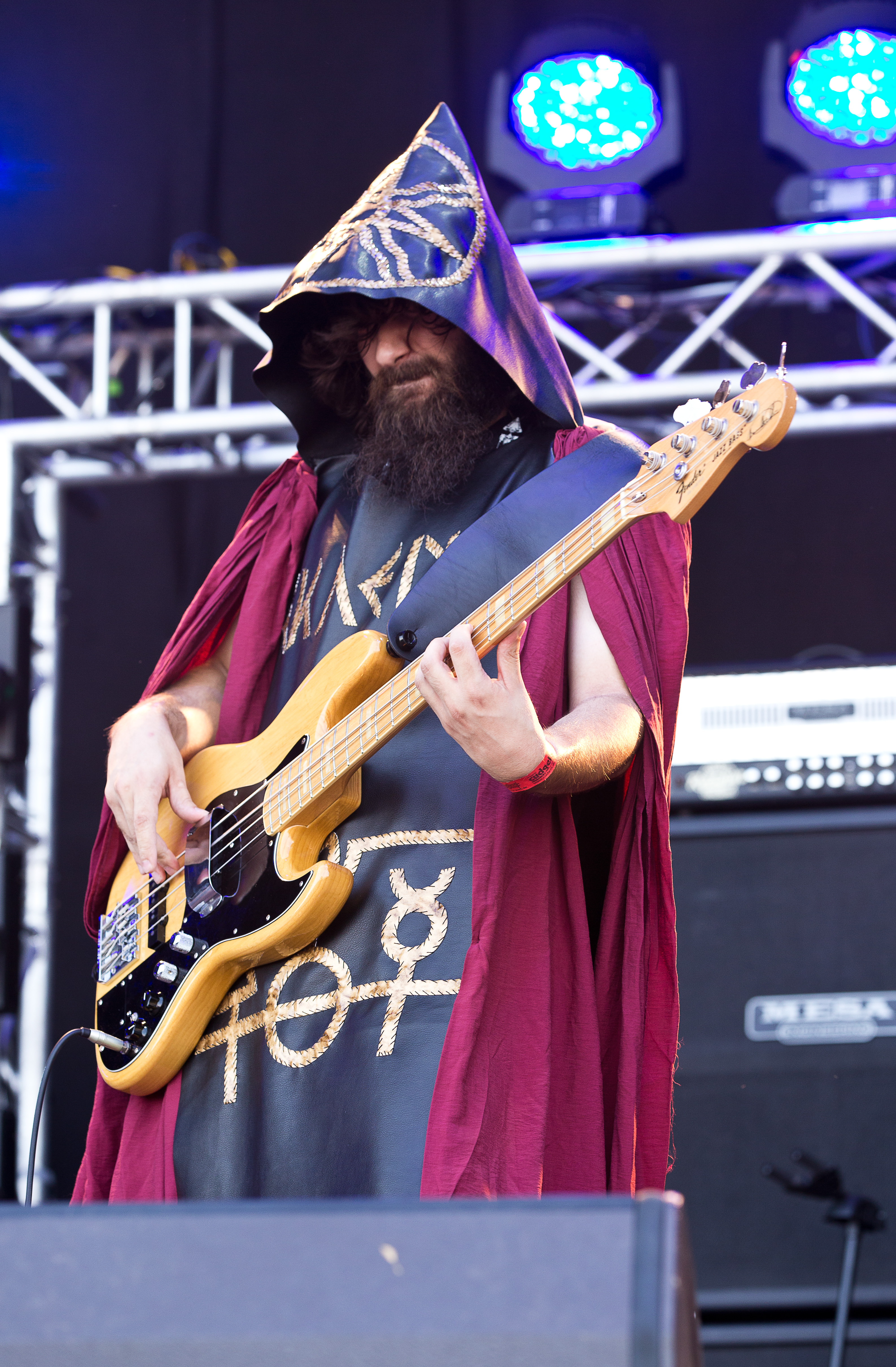 The Greek avantgarde metal band Zemial at the Party.San Open Air 2015 in Obermehler-Schlotheim/Germany.